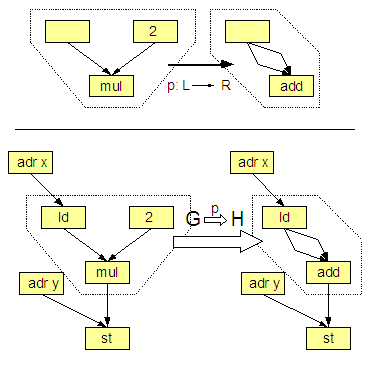 Sample of graph rewrite rule and its application.